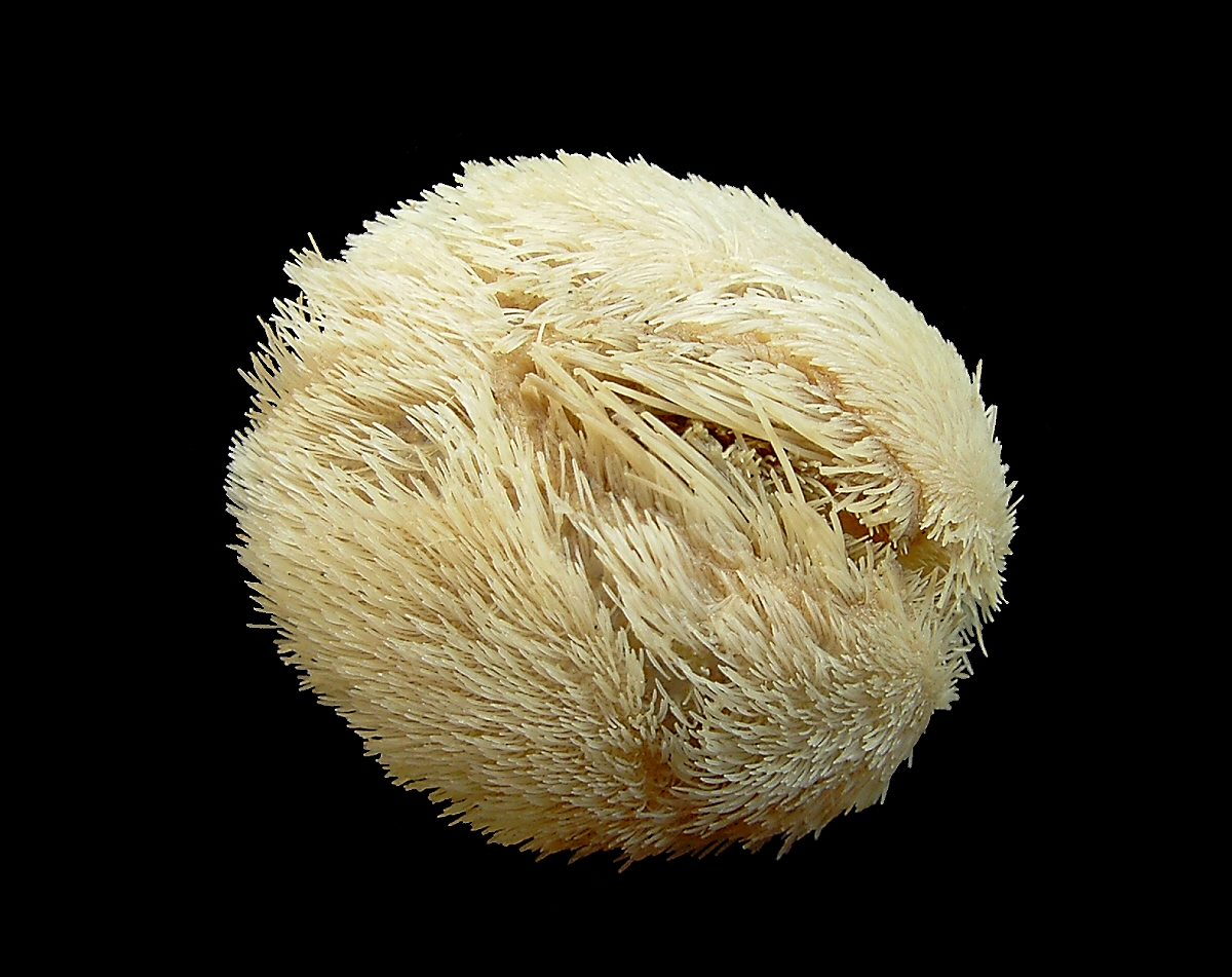 This common heart urchin was sampled on the Belgian Continental Shelf in 2000. Lab image.